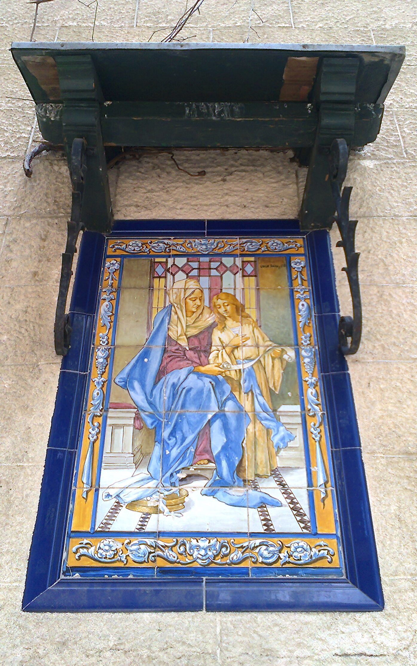 Detail of the entrance to the Colony of Press